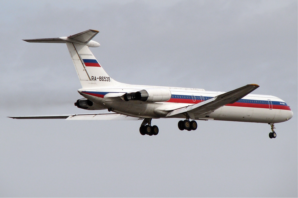 223rd Flight Unit Ilyushin Il-62 RA-86539. At Chkalovsky (CKL / UUMU).